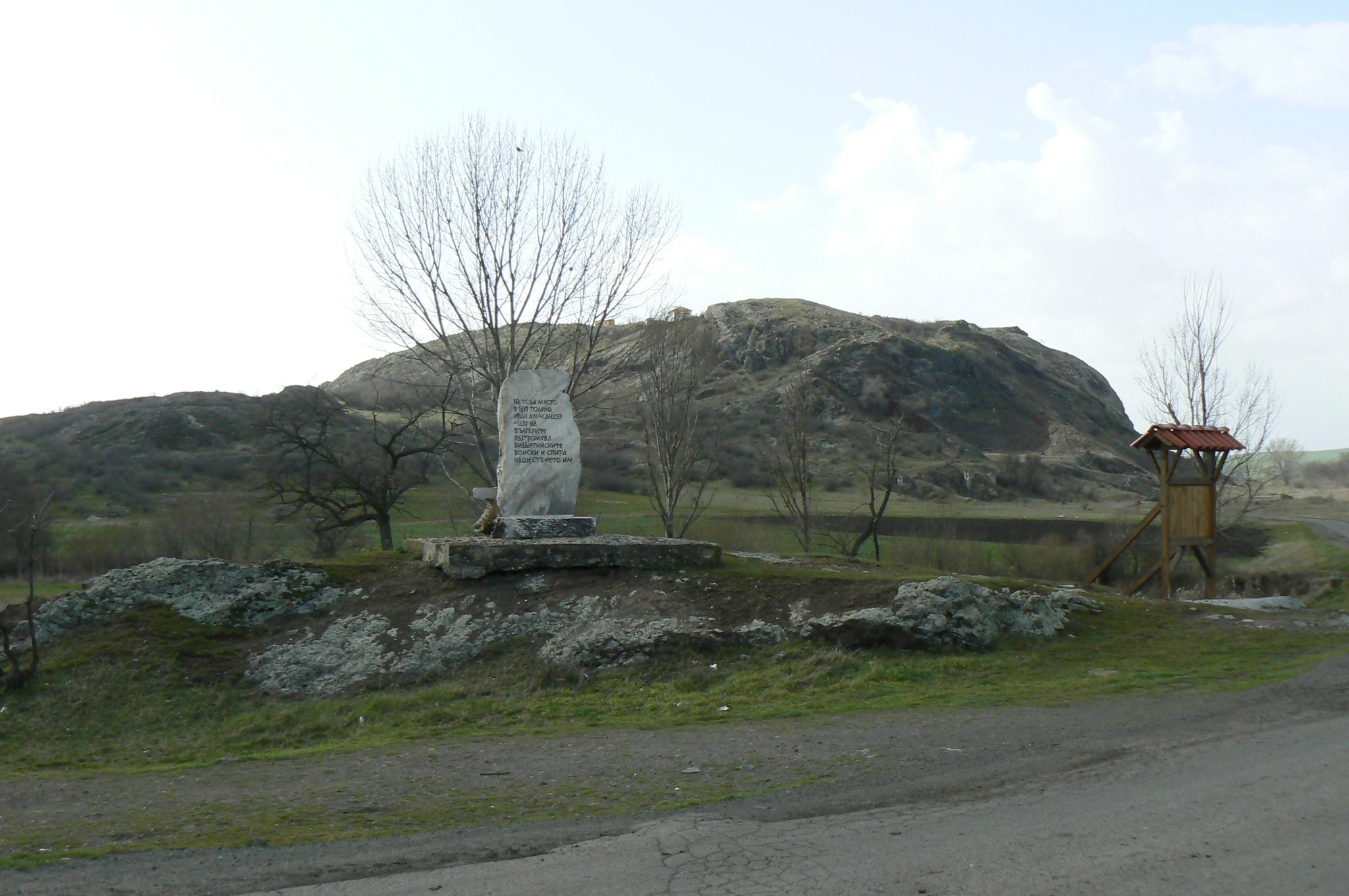 Monument of the Battle of Rusokastro in 1331 year, between the villages of Rusokastro and Zhelyazovo, Bulgaria